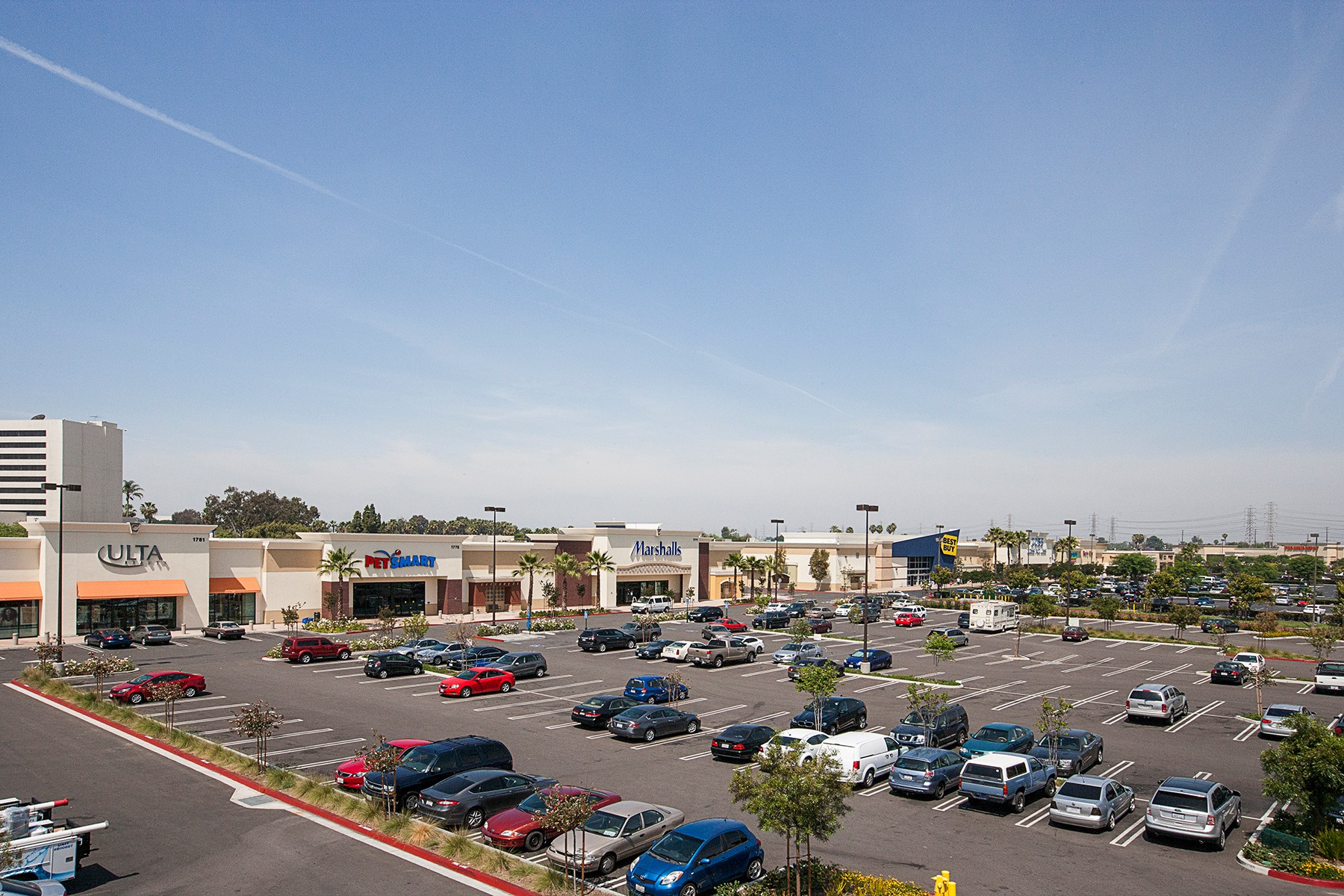 Compton Gateway Town Center